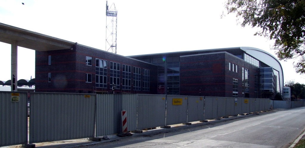 New indoor arena under construction Ostrowiec Swietokrzyski, Poland